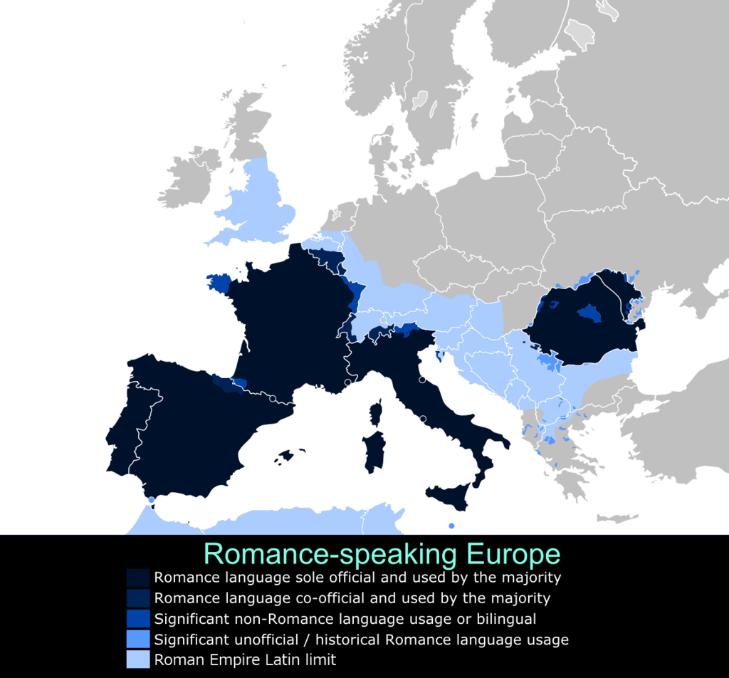 Distribution of Romance-speaking populations in Europe.